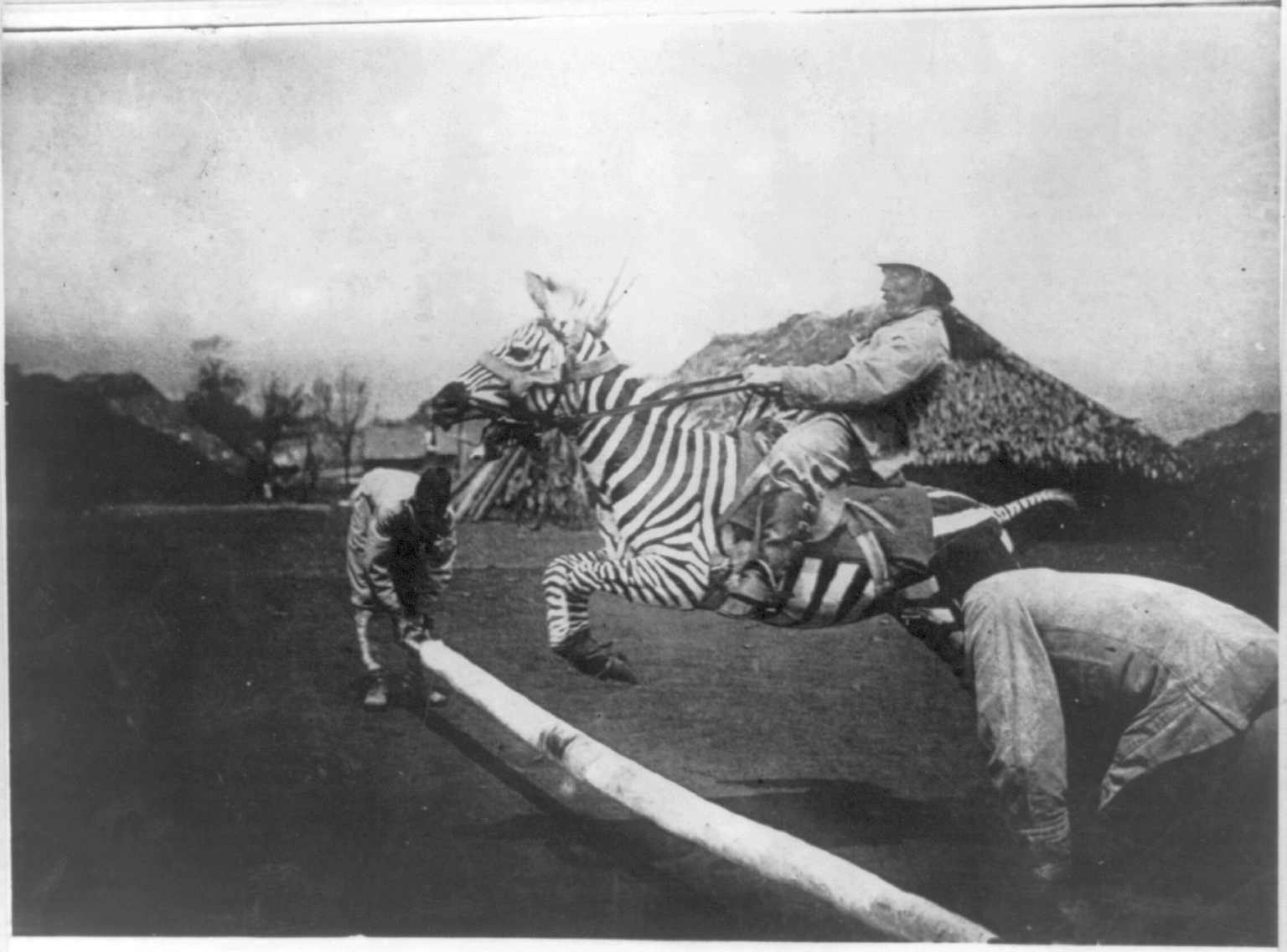 Man on a tame zebra jumping a fence in East Africa. Photo between 1890 and 1923.